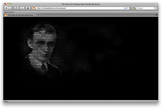 Screenshot of a new media artwork by Michael Demers.